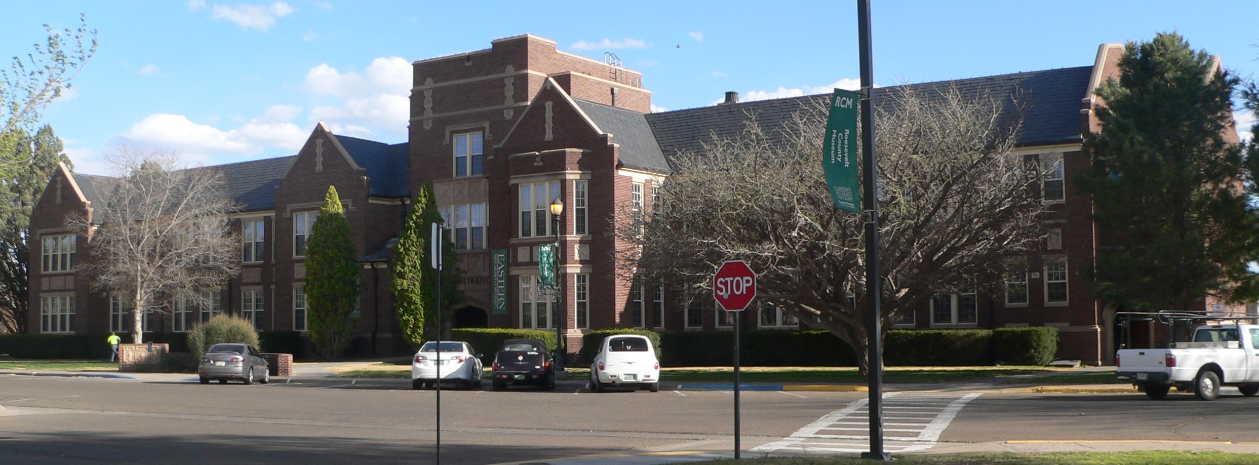 Eastern New Mexico University administration building, on ENMU campus in Portales, New Mexico; seen from the northwest.